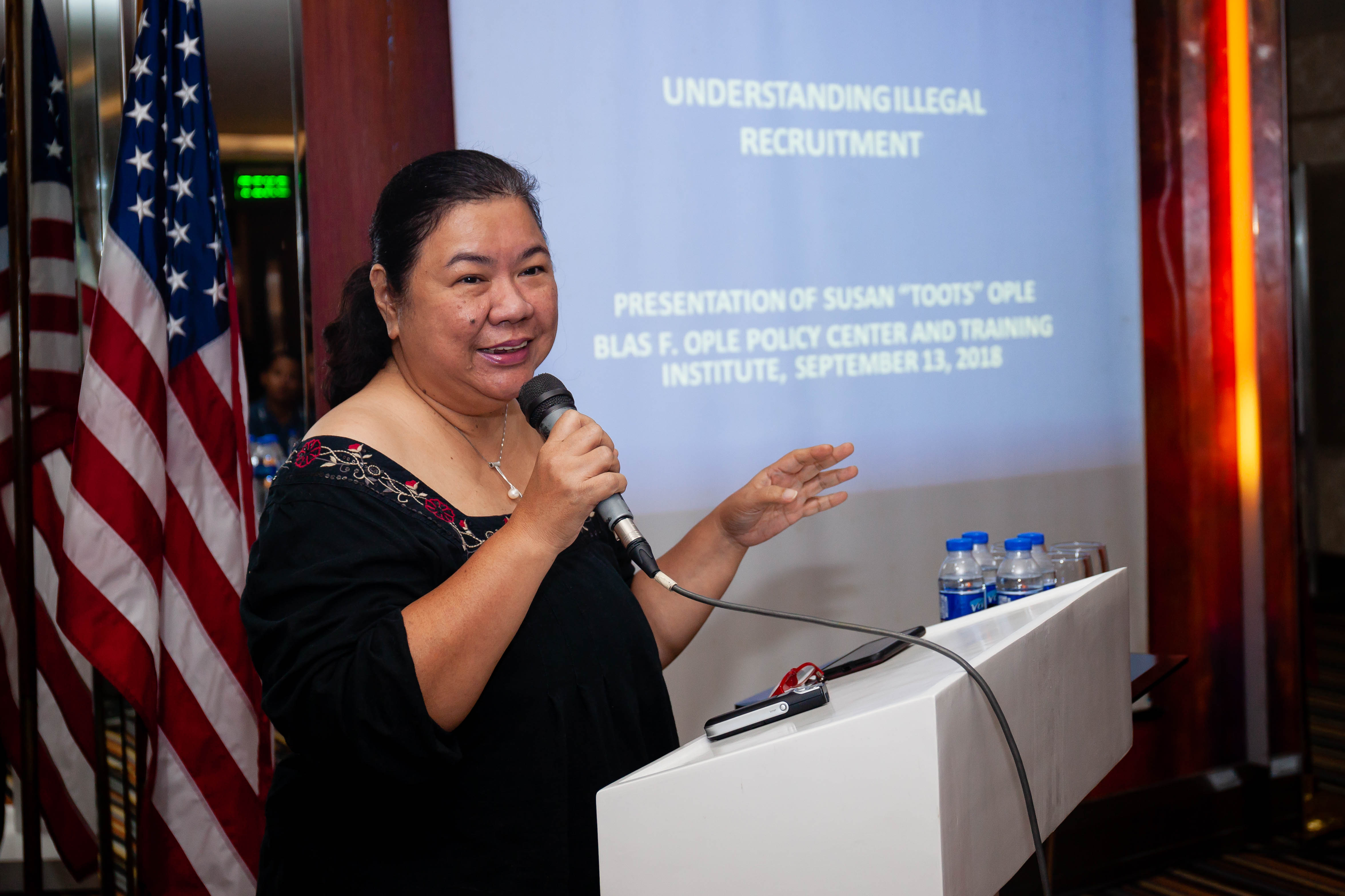 Susan "Toots" Ople at the 10th Regional Media Seminar hosted by the United States Embassy.